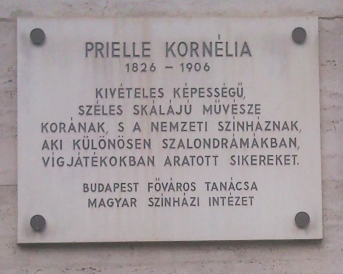 Kornélia Prielle commemorative plaque in Budapest District XI, Prielle Kornélia Street No 16.